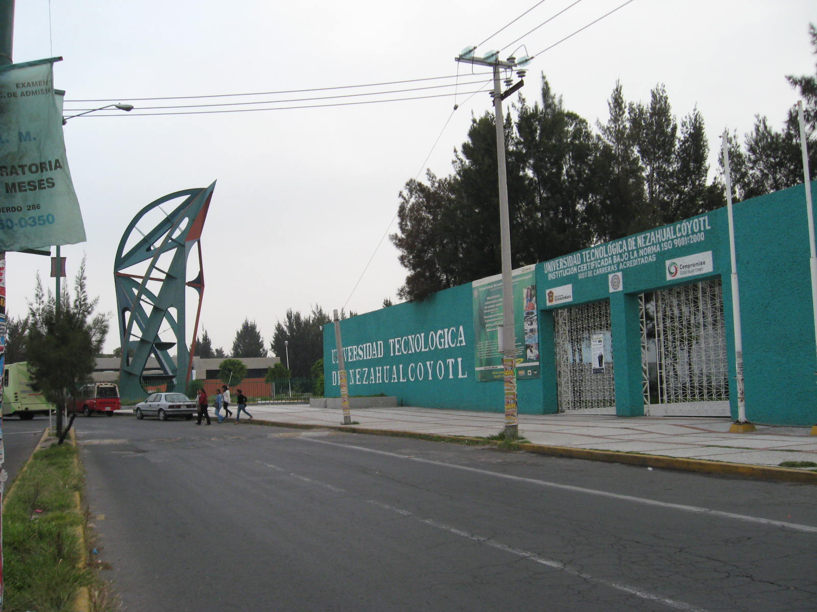 Main entrance of Universidad Tecnologico de Nezahualcoyotl in Ciudad Nezahualcoyotl, Mexico